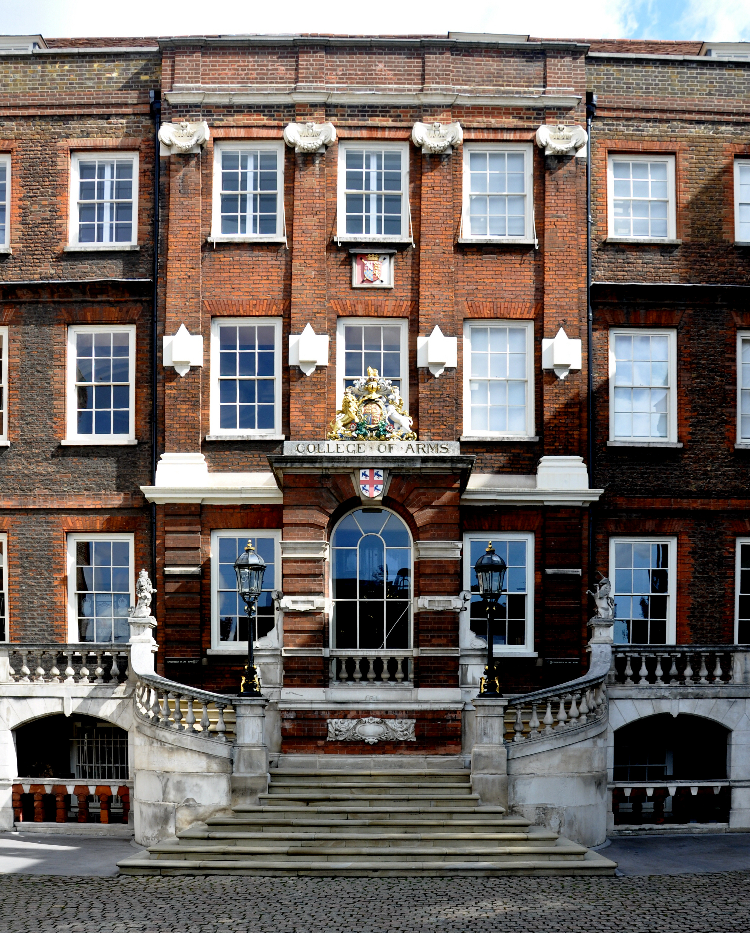 London, College of Arms